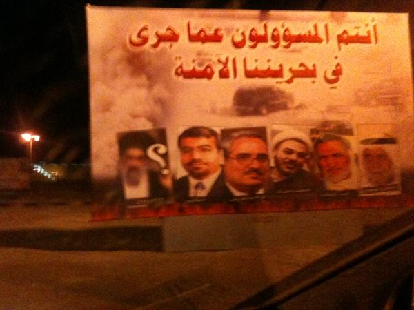 An anti-Bahrain Thirteen sign, with pictures of jailed Bahraini Shia and Sunni opposition leaders with their names written below, right to left: Hassan Mushaima, Abdulwahab Hussain, Mohamed al-Miqdad, Ibrahim Sharif, Abduljalil al-Singace and a question mark over a blurred picture depicting Shia cleric Hadi al-Modarresi that reads beneath it "And others." At top, the sign reads: "You are responsible for what happened in our safe Bahrain."